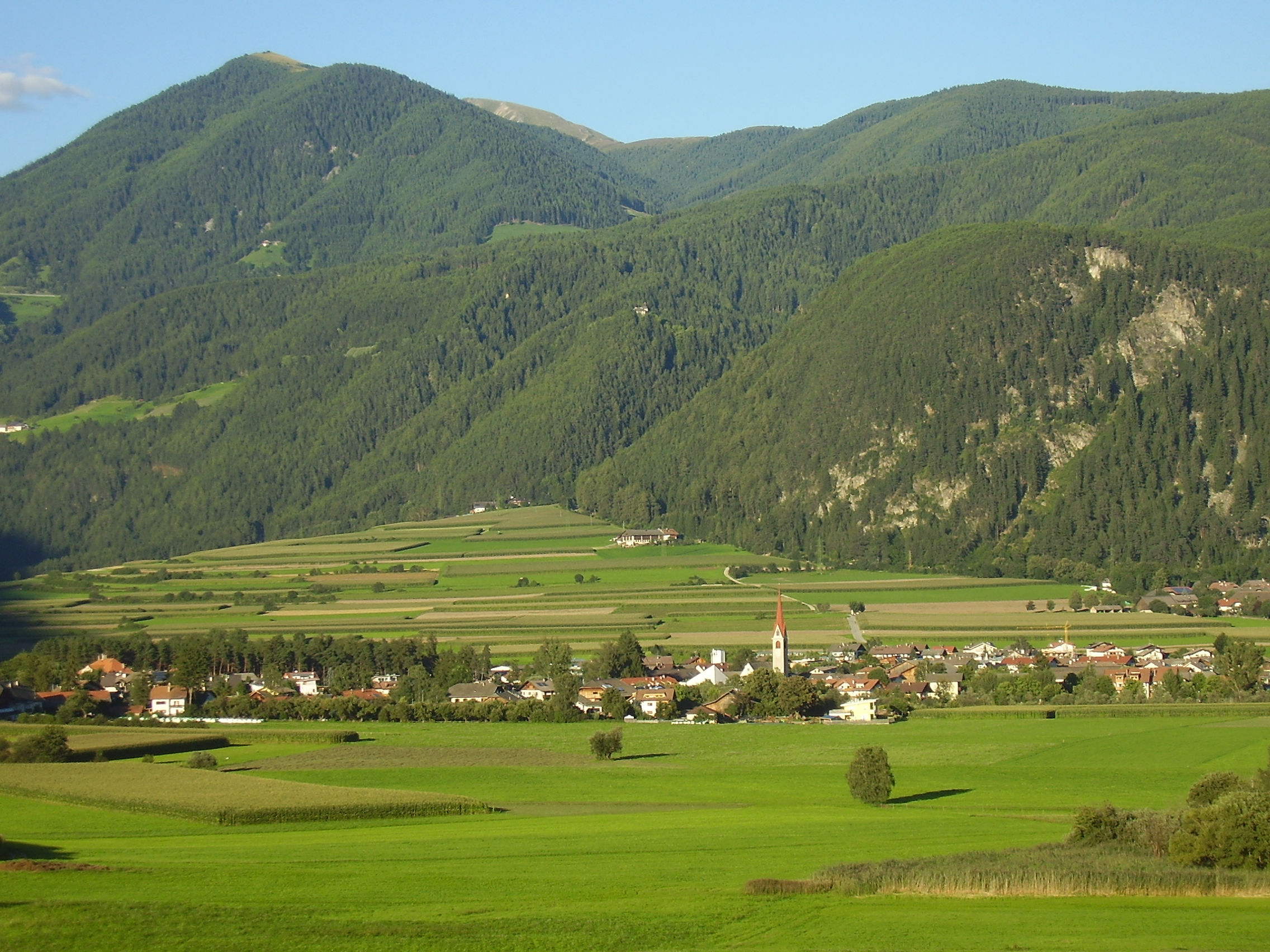 St. Georgen and a geometric alluvial fan near Gais (South Tyrol, Italy)